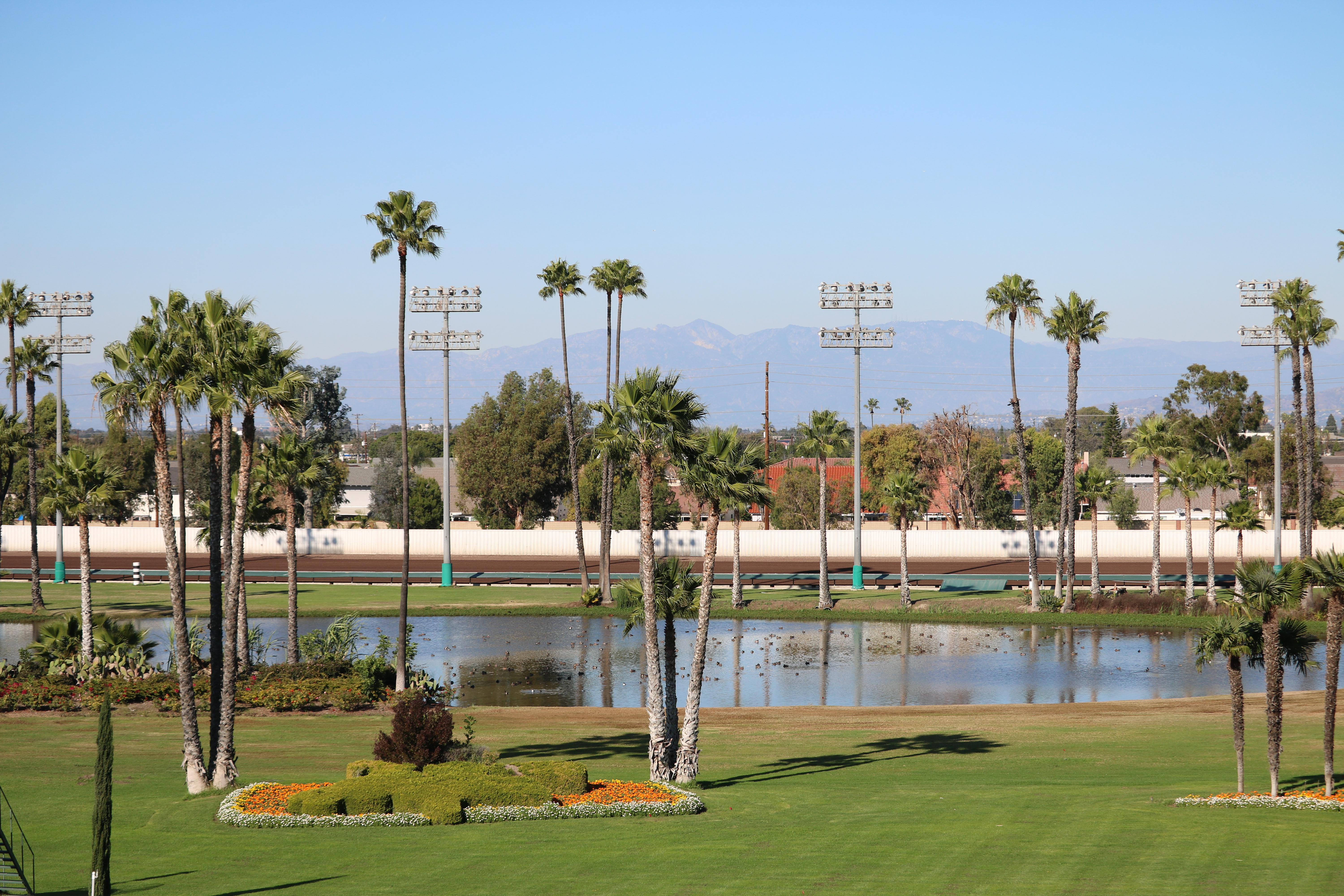 Los Alamitos racetrack December 17, 2016